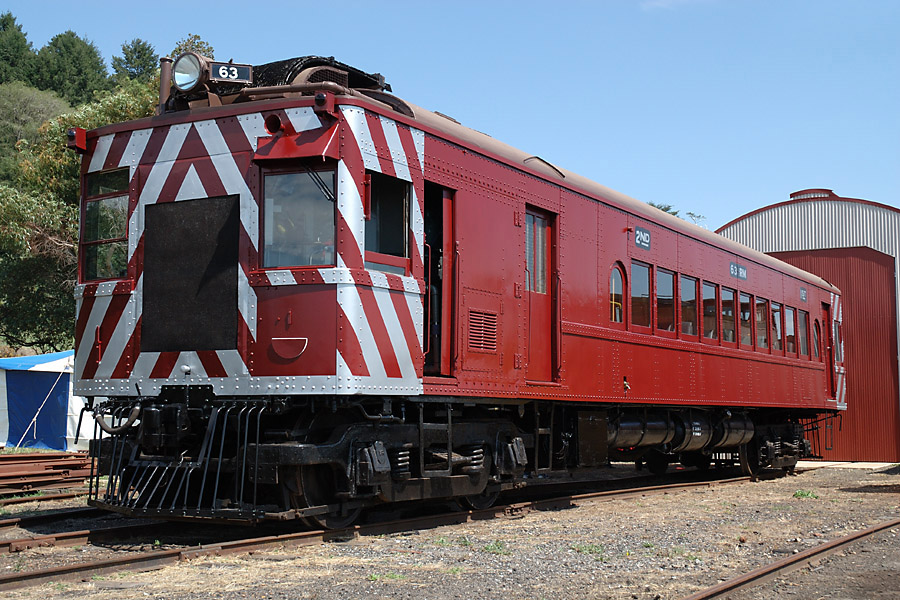 DERM 63RM at the official launch at the Daylesford Spa Country Railway following a four year overhaul in February 2007.